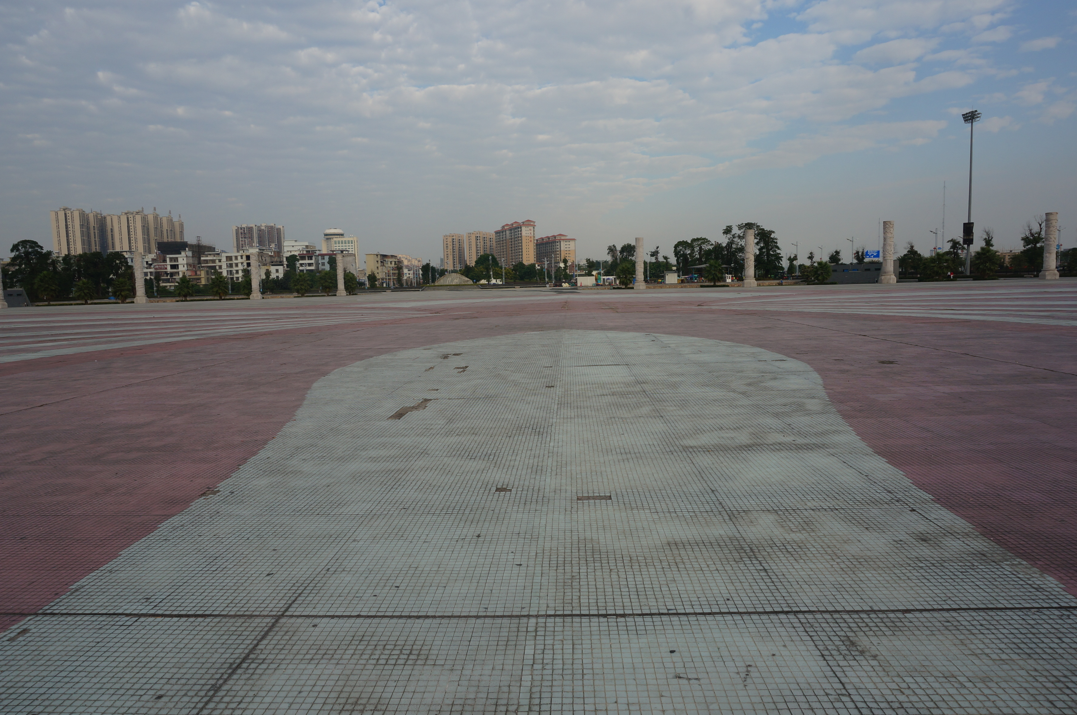 This image shows the whole view of Jieyang Tower Square, which is a part of the tourist attraction and landmark Jieyang Tower.